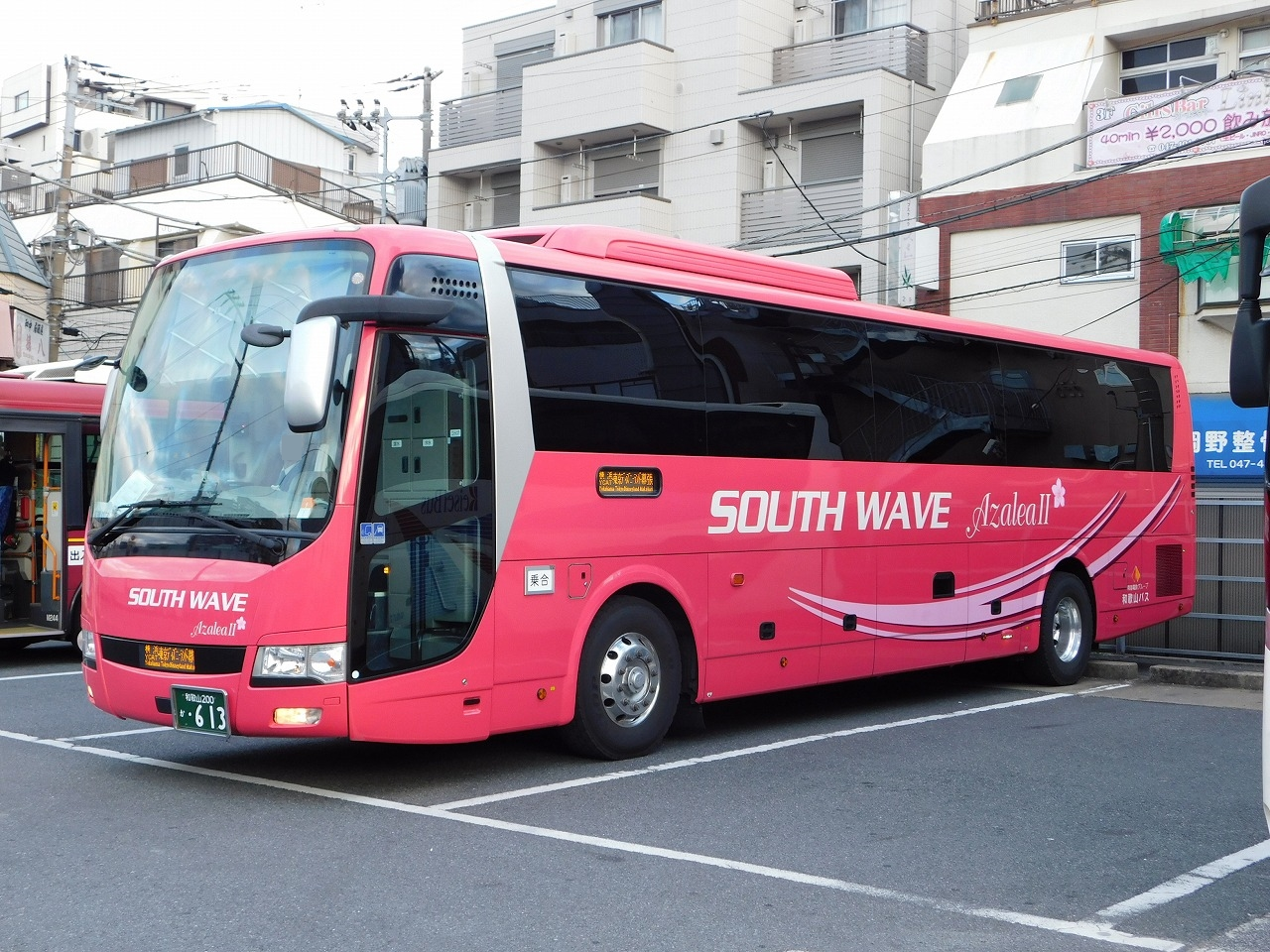 Wakayama bus Mitsubishi Fuso Aero Acefor highwaybus "Southwave"(Wakayama-Yokohama,Chiba)